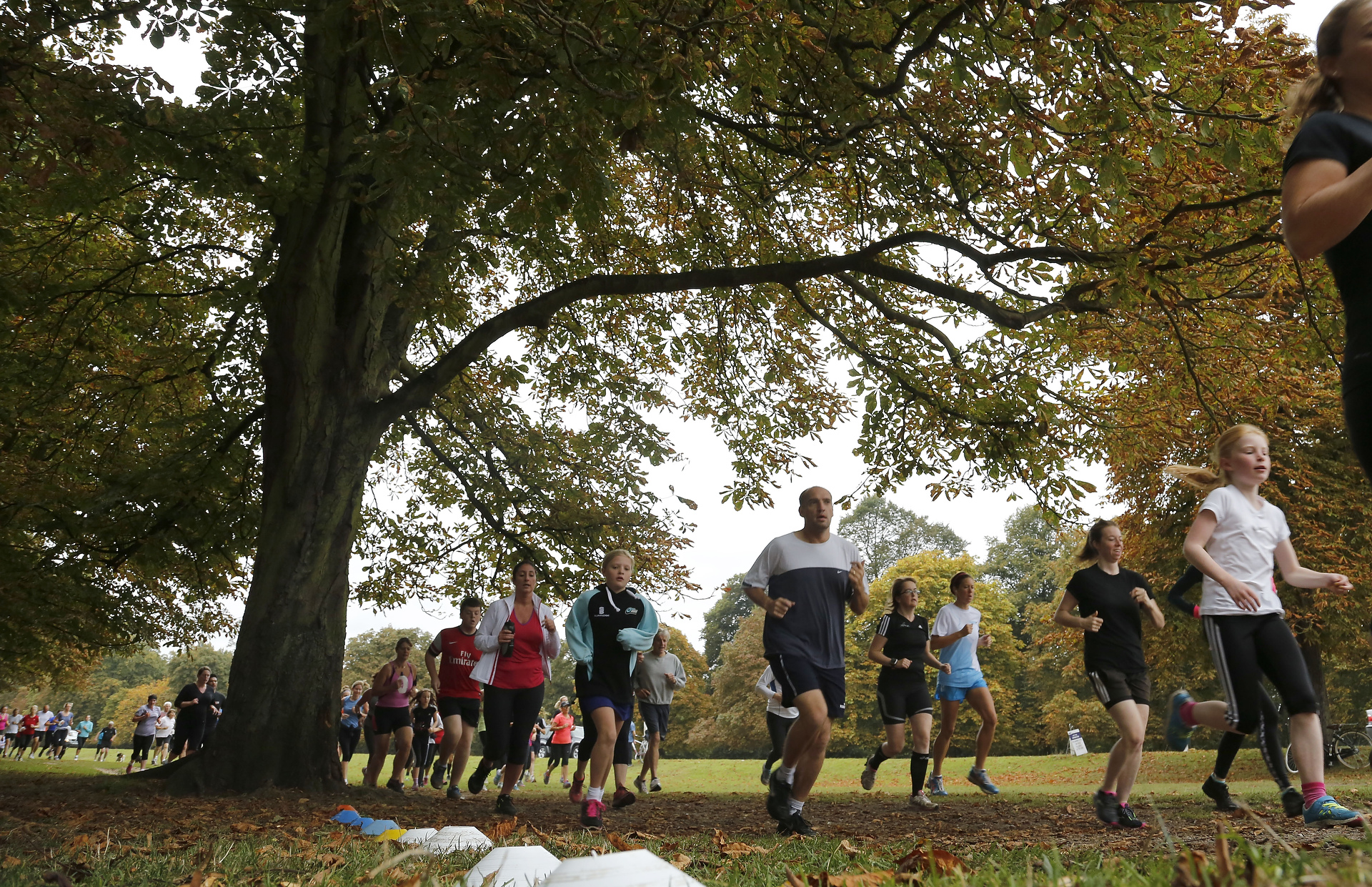 Bushy parkrun 27th September 2014